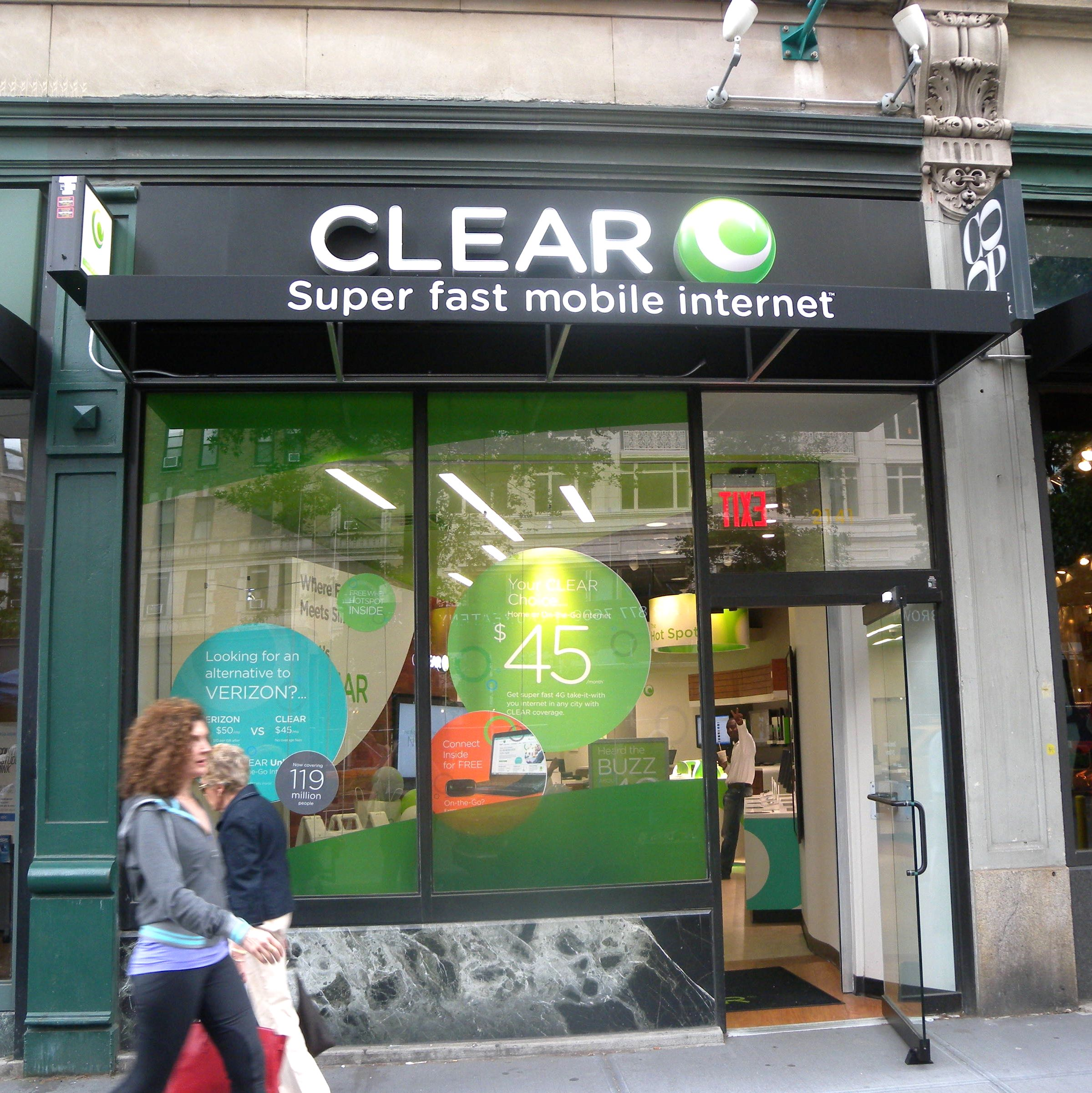 Looking west at CLEAR shop on a cloudy day.